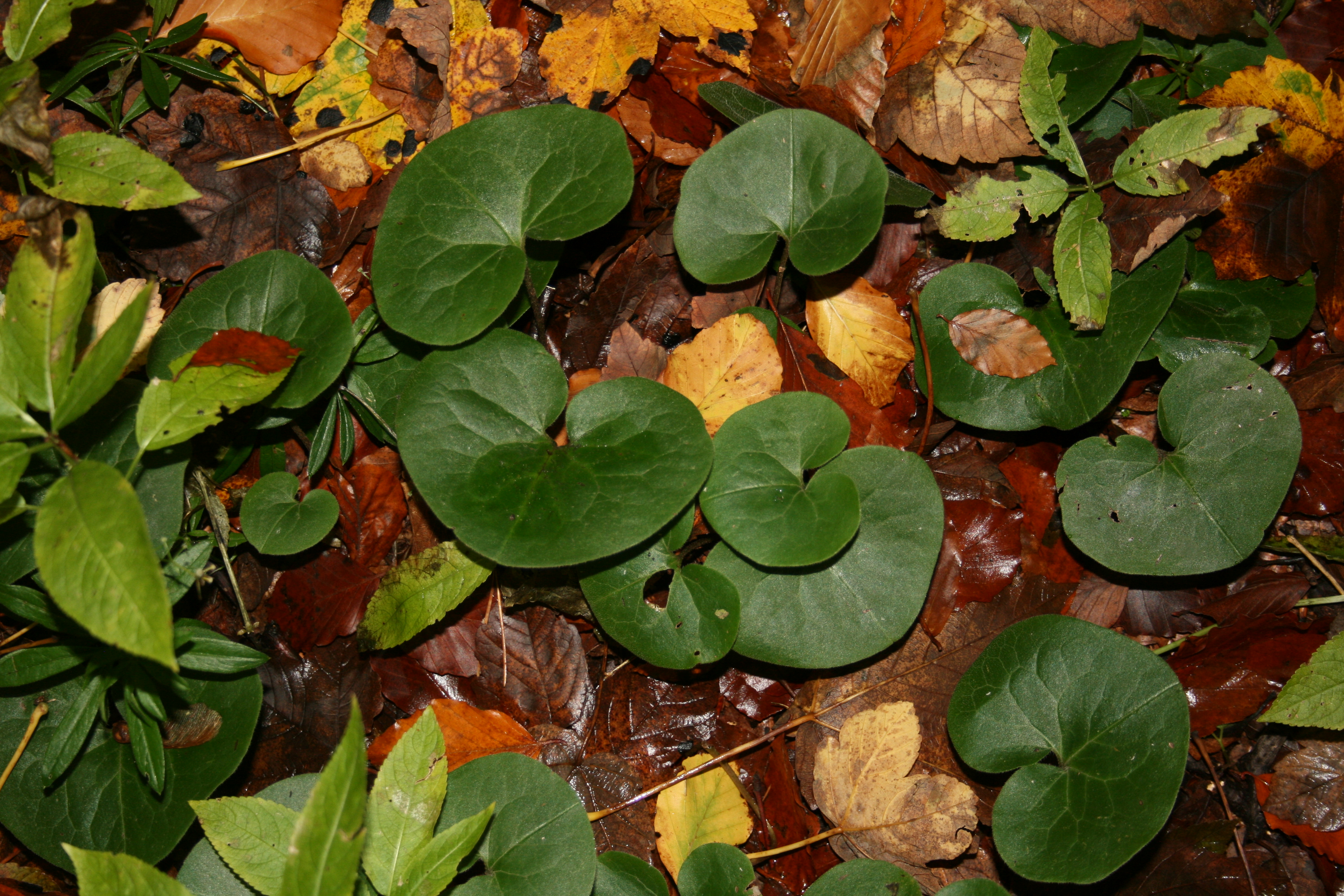 Asarum europaeum, found on hill Straznik, by village Perimov, Czech republic